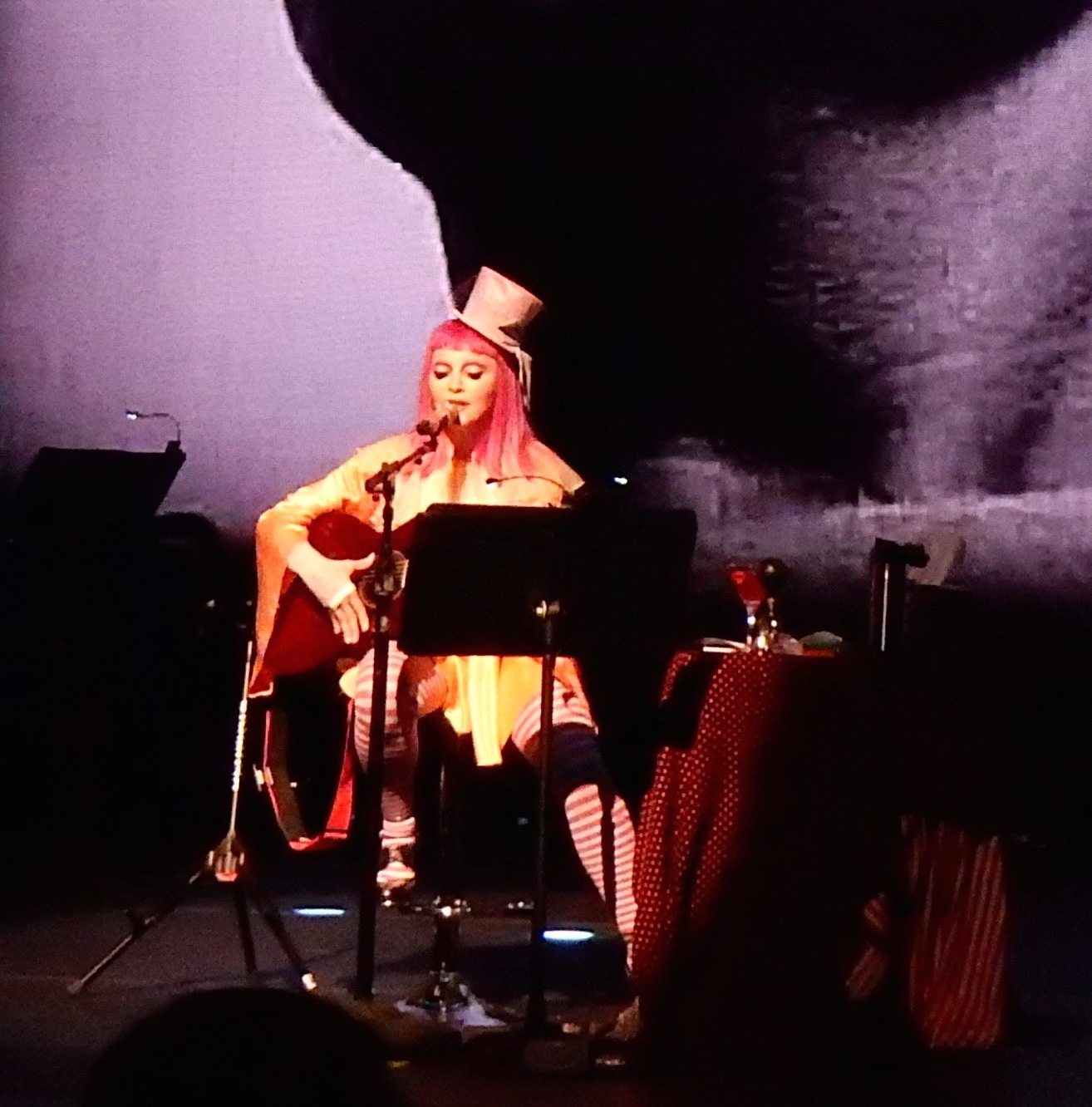 Special fan only show at The Forum, Melbourne, 10 March 2016